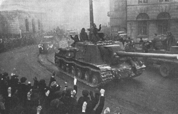 Residents of Lodz greet the Soviet tankists entering the city in 1945. Original description in Russian ( : ИСУ-122. Лодзь, 1945 г. (ISU-122, Lodz, 1945) Source: from pre-1954 image, unknown author also see: [1] at the State Archive of the Russian Federation with caption: "Residents of Lodz greet Soviet tankists entering the city"